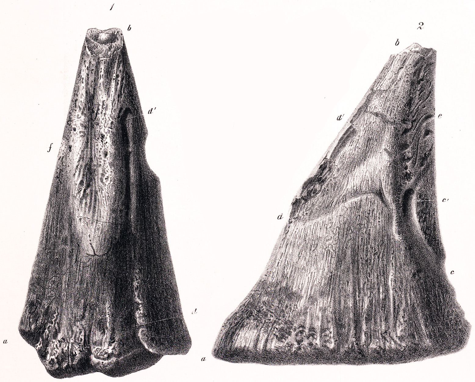 The original thumb spike referred to as the 'Horn of the Iguanodon' by Gideon Mantell. Oriignal caption by Owen: Ungual phalanges of modified shape, probably from the extreme toe, outer or inner, of the hind foot of the Iguanodon. Figs. 1 and 2, are of the specimen called 'Horn of the Iguanodon', in the Works and Catalogue of Dr. Mantell. From the Wealden, Sussex. In the British Museum